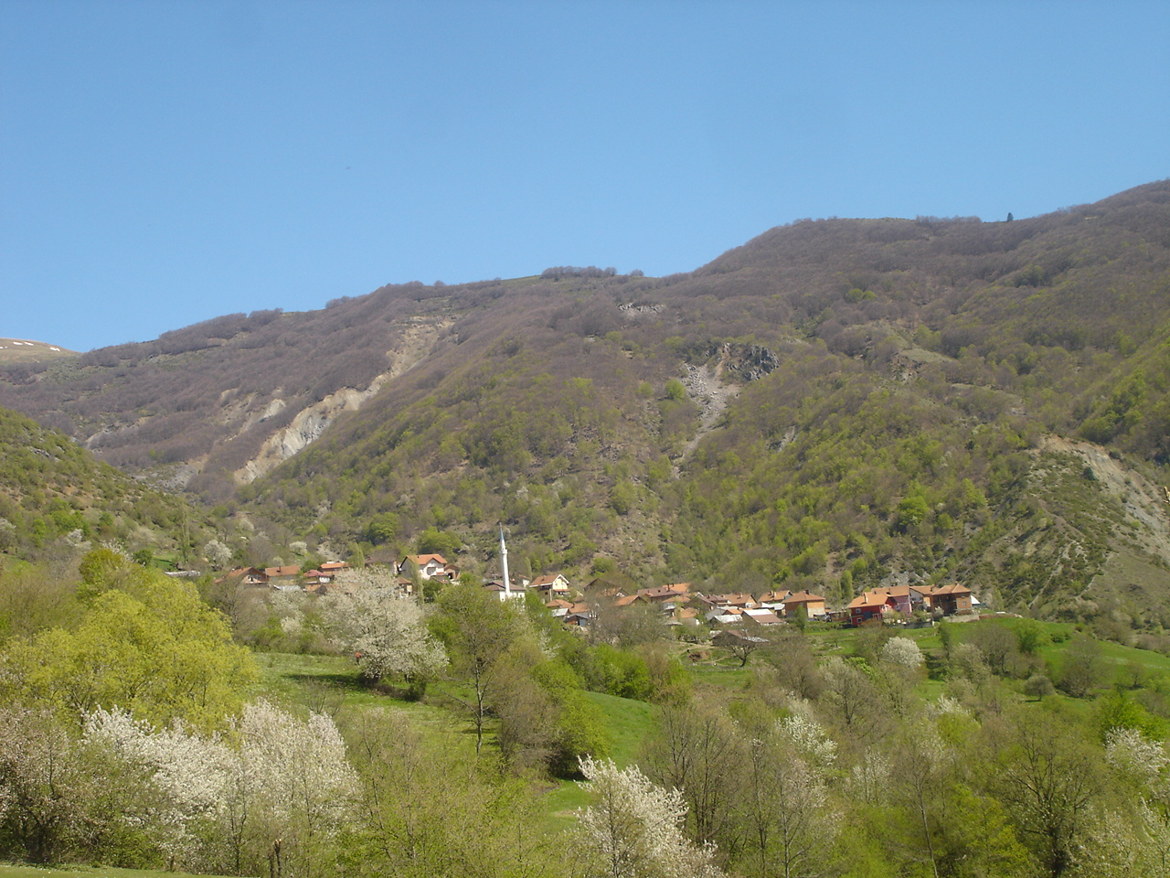 village of Elevci in Centar Župa municipality, Debar region, Macedonia